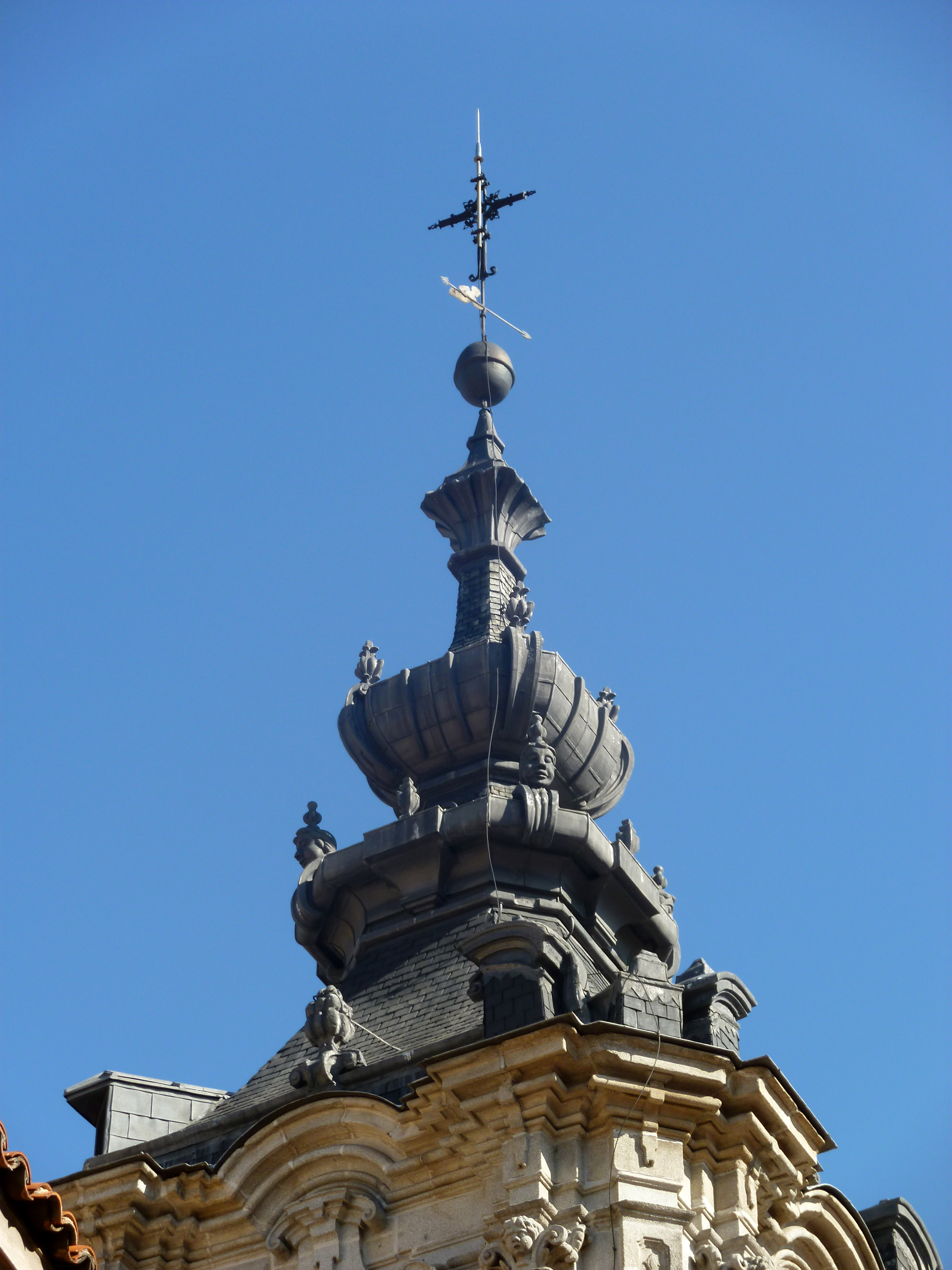 Top of the belfry at the Church of Our Lady of Montserrat in Madrid (Spain).